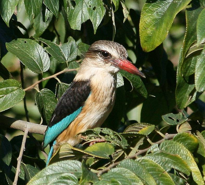 Male Brown-hooded Kingfisher in a Pigeonwood tree in our garden